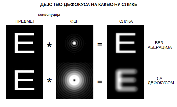 ДЕЈСТВО ДЕФОКУСА НА ОПТИЧКУ СЛИКУ